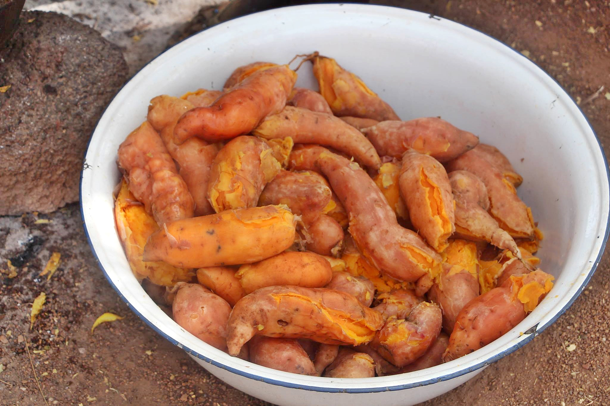 "Orange flesh sweet potatoes" (root tubers of the plant Ipomoea batatas from the family Convolvulaceae at the Potato festival 2016 in Gushiegu (Northern Region, Ghana).